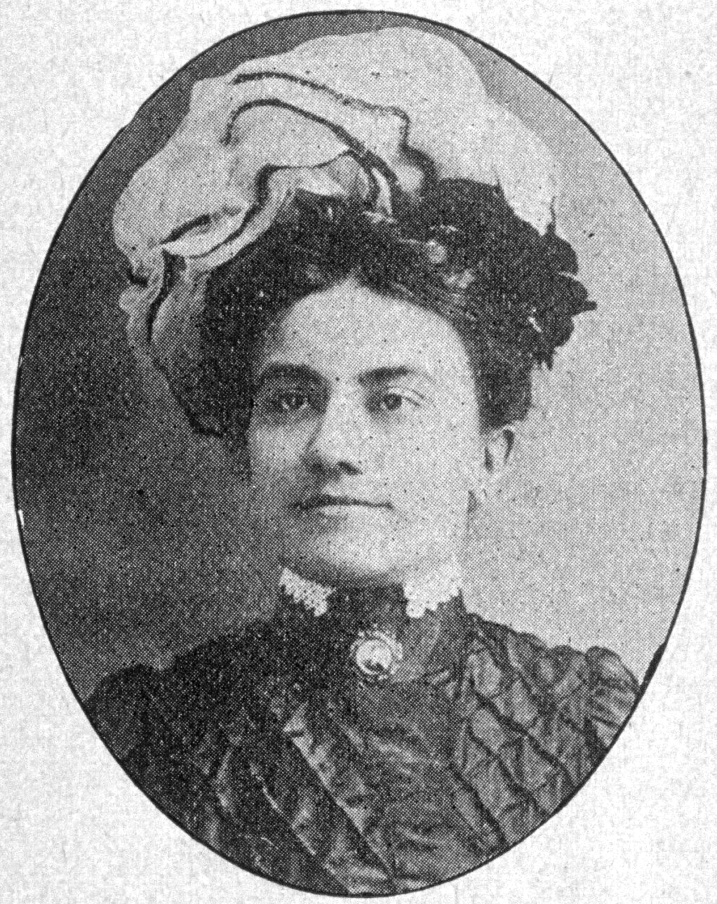 French canadian author and journalist (picture from Le Monde Illustré, vol 18 no 903).